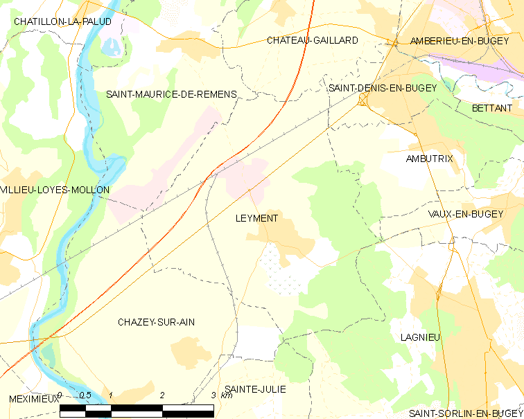 Map of French commune: Leyment Map commune FR insee code 01213.png